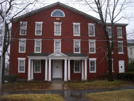 Red building with 1812 on it, in Litchfield, Connecticut